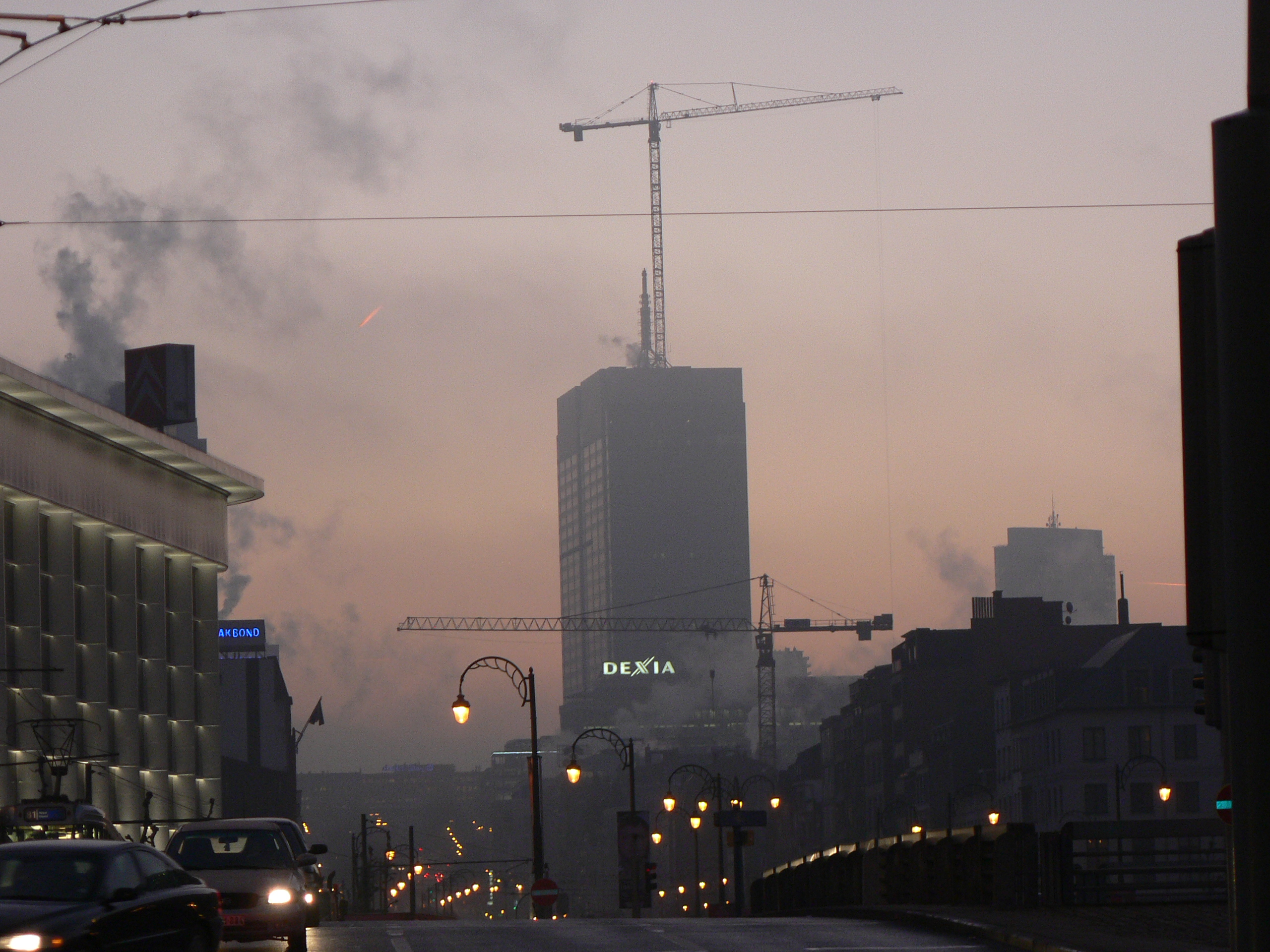 Dexia Bank Brussels, Belgium, end December 2007. Picture taken from Sainctelette Square: right behind the Dexia sign, there is the Finance Tower of the Belgian State. On the left, you can see "(v)akbond" i.e. the ACLVB union sign near Heliport Avenue. Also, you can see the Citroën garage sign, and the tram coming onto the bridge.